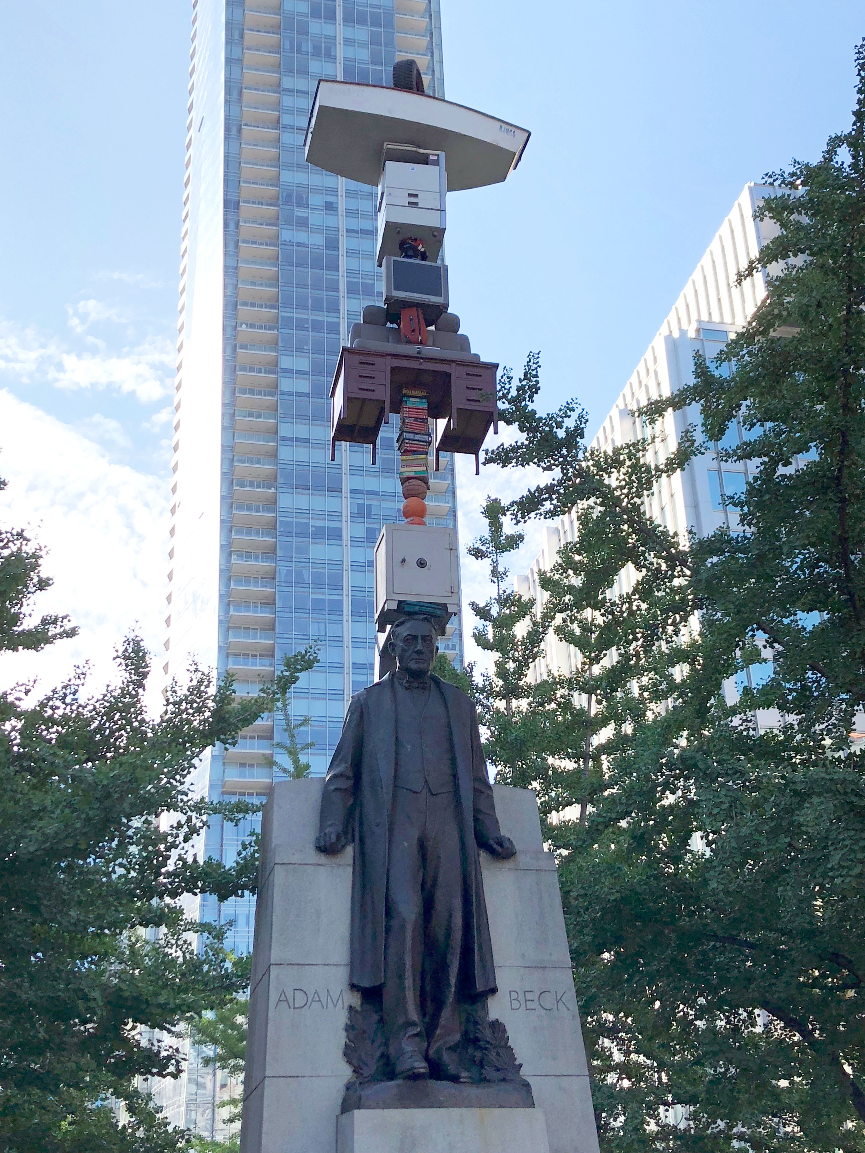 "Life's little worries of sir Adam Beck" by Tatzu Nishi. A presentation of Prefix Institute of Contemporary art in the downtown Toronto (September 5-30, 2018)